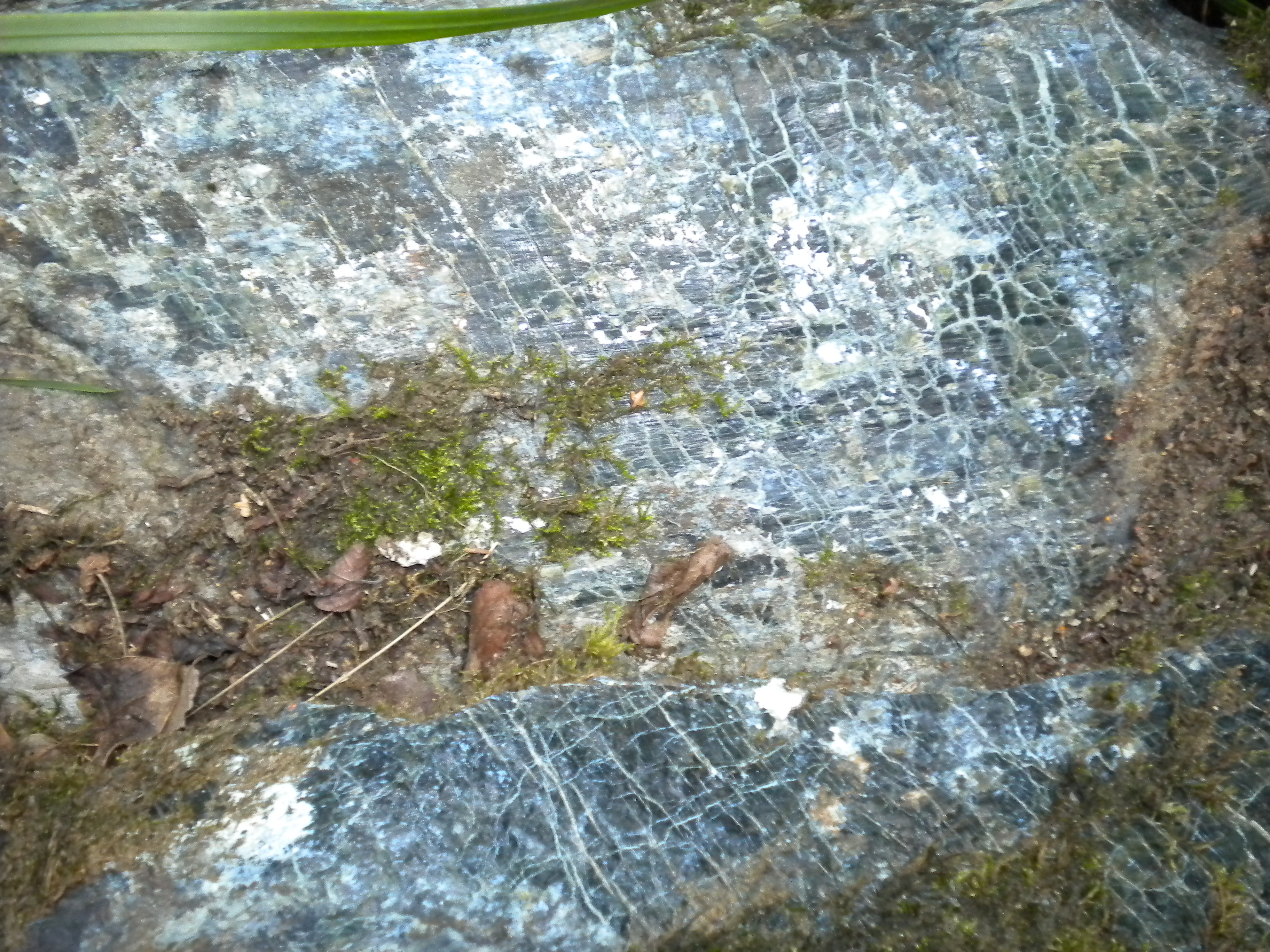 Merlis Serpentinite from the Merlis quarry with the typical mesh-like surface on thrust plane. Near Vayres, Haute-Vienne department, France.